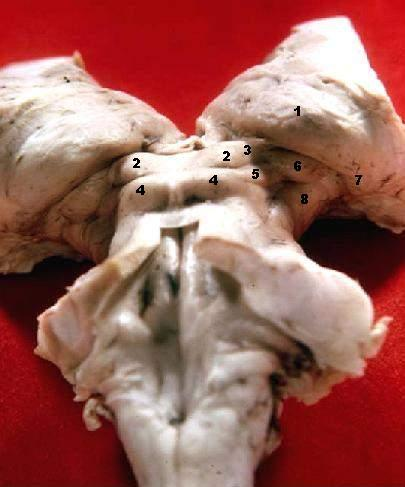 Human brainstem - thalamus posterior-inferior view Pulvinar thalami Colliculi superioris Brachium colliculi superioris Colliculi inferiores Brachium colliculi inferioris Corpus geniculatum mediale Corpus geniculatum laterale Crus cerebri The Metathalamus of the Dorsal Thalamus is made up of two nuclei tucked under the Pulvinar. These are the Medial and Lateral Geniculate Bodies. The Medial Geniculate Body receives input from the Brachium of the Inferior Colliculus and is part of the Auditory Pathway. The Lateral Geniculate Body is part of the Visual Pathway receiving fibers from the Optic Tract. The Lateral Geniculate Body also gives rise to visual reflex fibers which enter the Superior Colliculus via the Brachium of the Superior Colliculus.